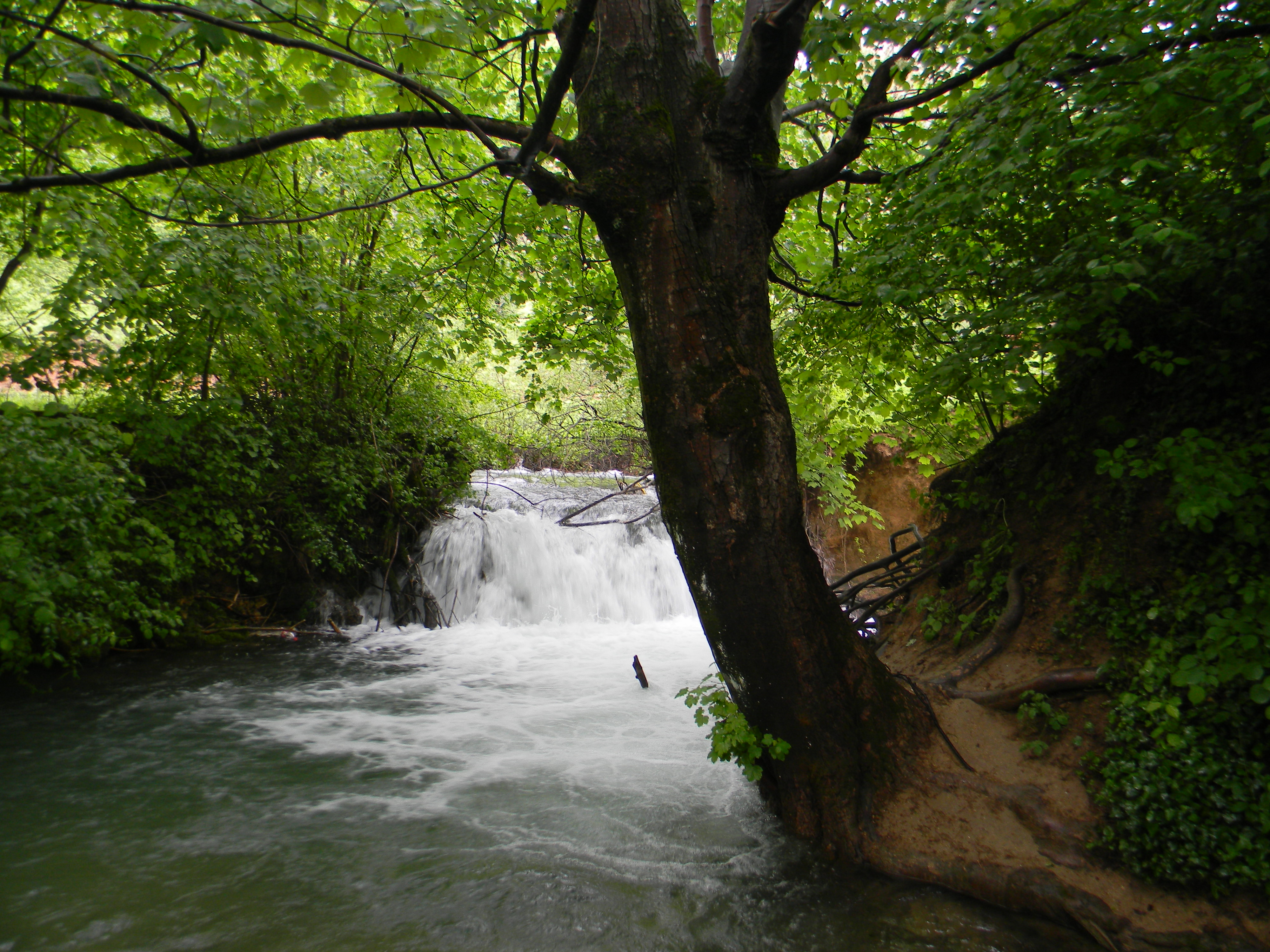 Vrelo river, right tributary of river Resava